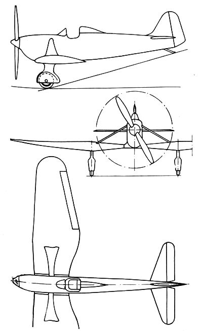 Morane Saulnier MS.325 3-view drawing from L'Aerophile February 1933